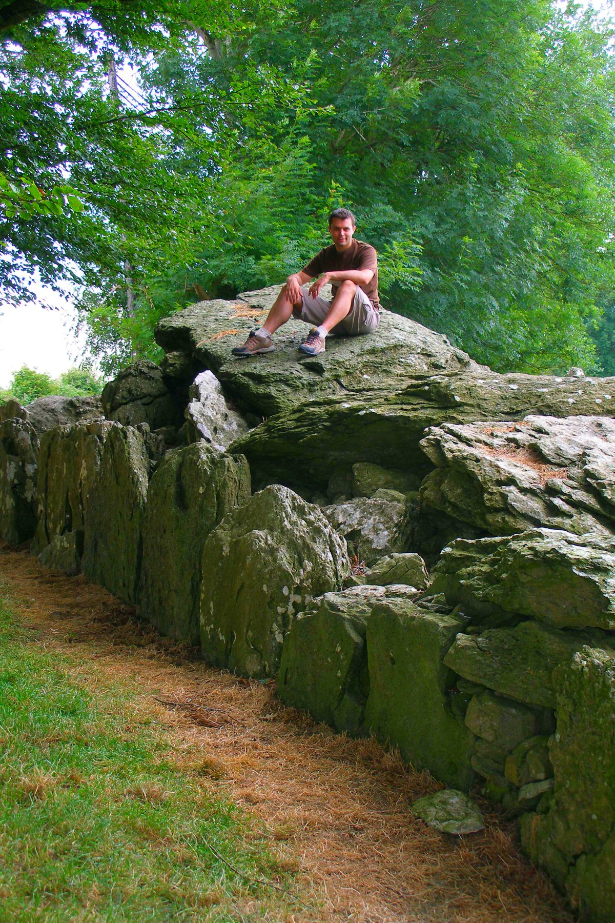 Corey atop Labbacallee wedge tomb in Glanworth, Co Cork, Ireland.